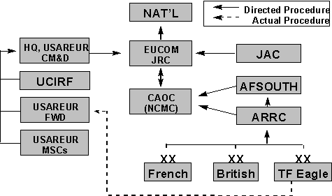 Flow diagram of intelligence collection under NATO CCIRM doctrine